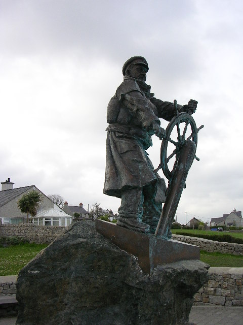 Richard "Dic" Evans, former Coxswain of Moelfre Lifeboat. Recipient of two RNLI Gold Medals. Taken from SH514864.